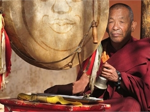 Nepalese monk